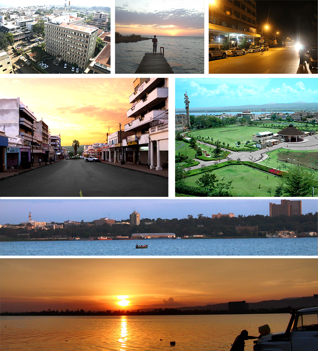 Kisumu Montage Kiswahili: Picha za Mji wa Kisumu